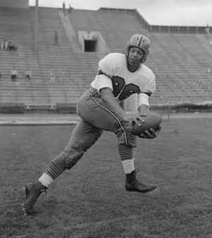 B.C. Lions football club, portraits, individual players, Gerry Palmer VPL Accession Number: 84780Y Date: July 10, 1954 Photographer / Studio: Jones, Art Content: Part of a series 84780+ (63 photos) Topic: Sports Sports teams Football Football players Stadiums Costume Sports uniforms Location: British Columbia - Vancouver Copyright Restrictions: Public Domain